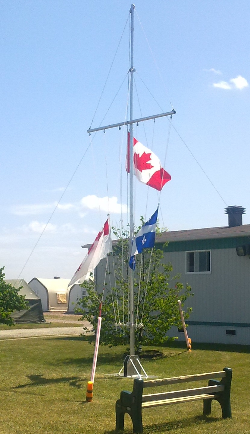 After the events of the train derailment at Lac Mégantic, Québec, the morning colours have been lowered at half-mast. The flags here are the Royal Canadian Sea Cadet Jack, the Canadian Flag and the Québec Flag